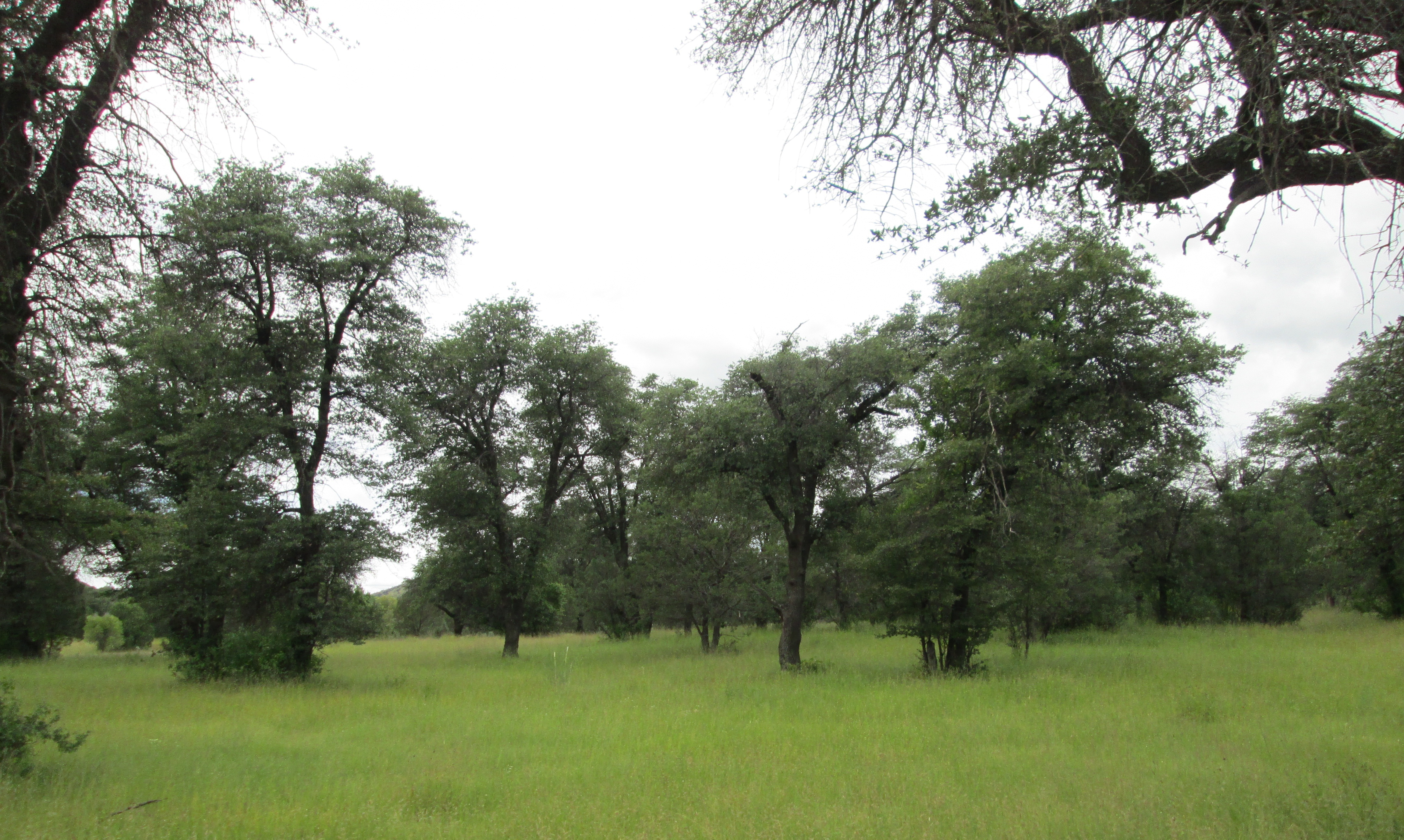 Oak woodland in the Patagonia Mountains, near the ghost town of Mowry, Arizona.